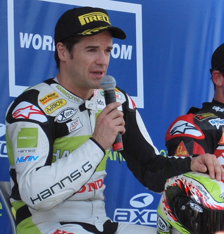 Carlos Checa speaking to the crowd in the post-race interview following his win of race 1 in the US round of the World Superbike Championship.